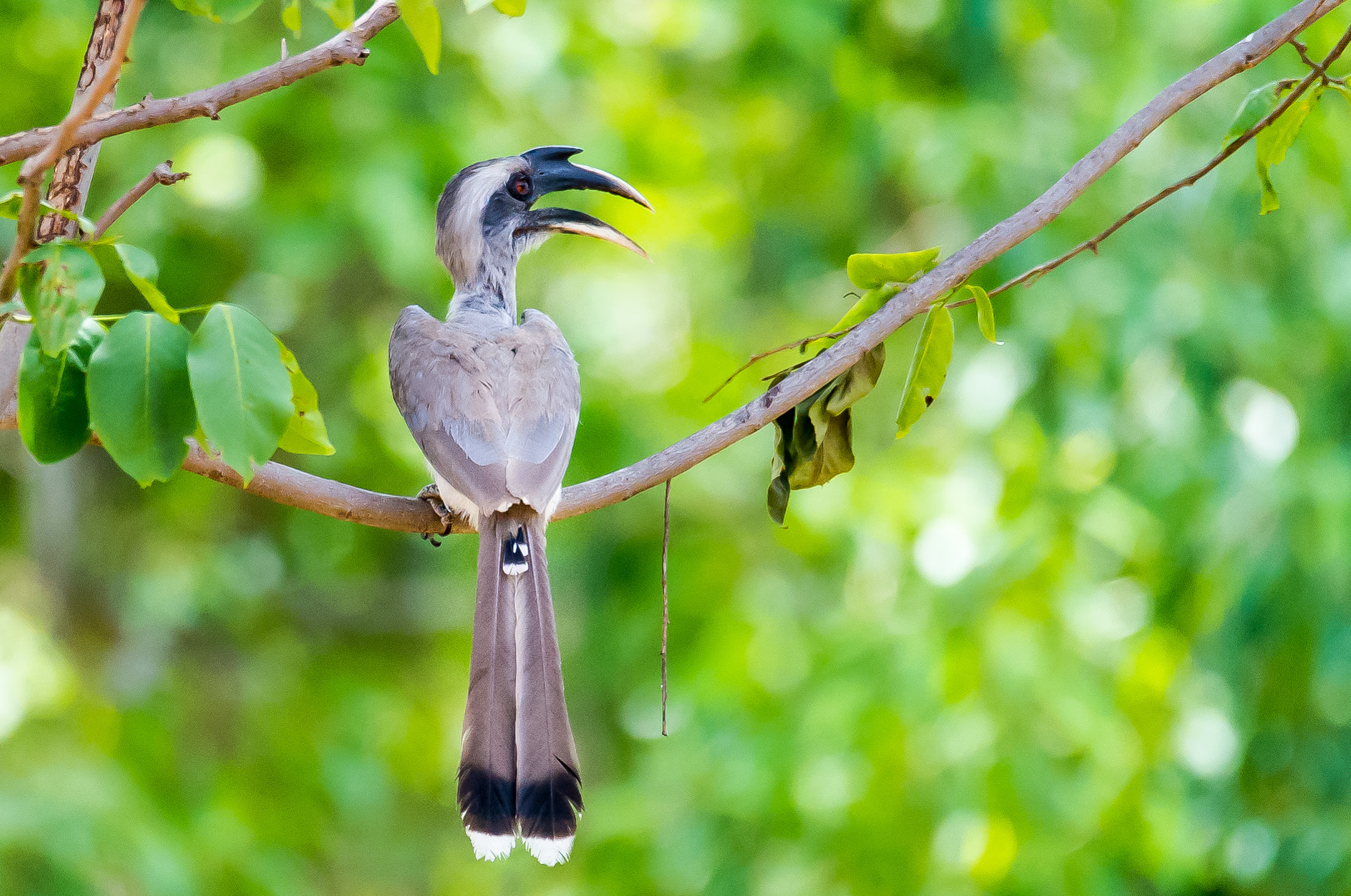 At Pench National Park, Madhya Pradesh.